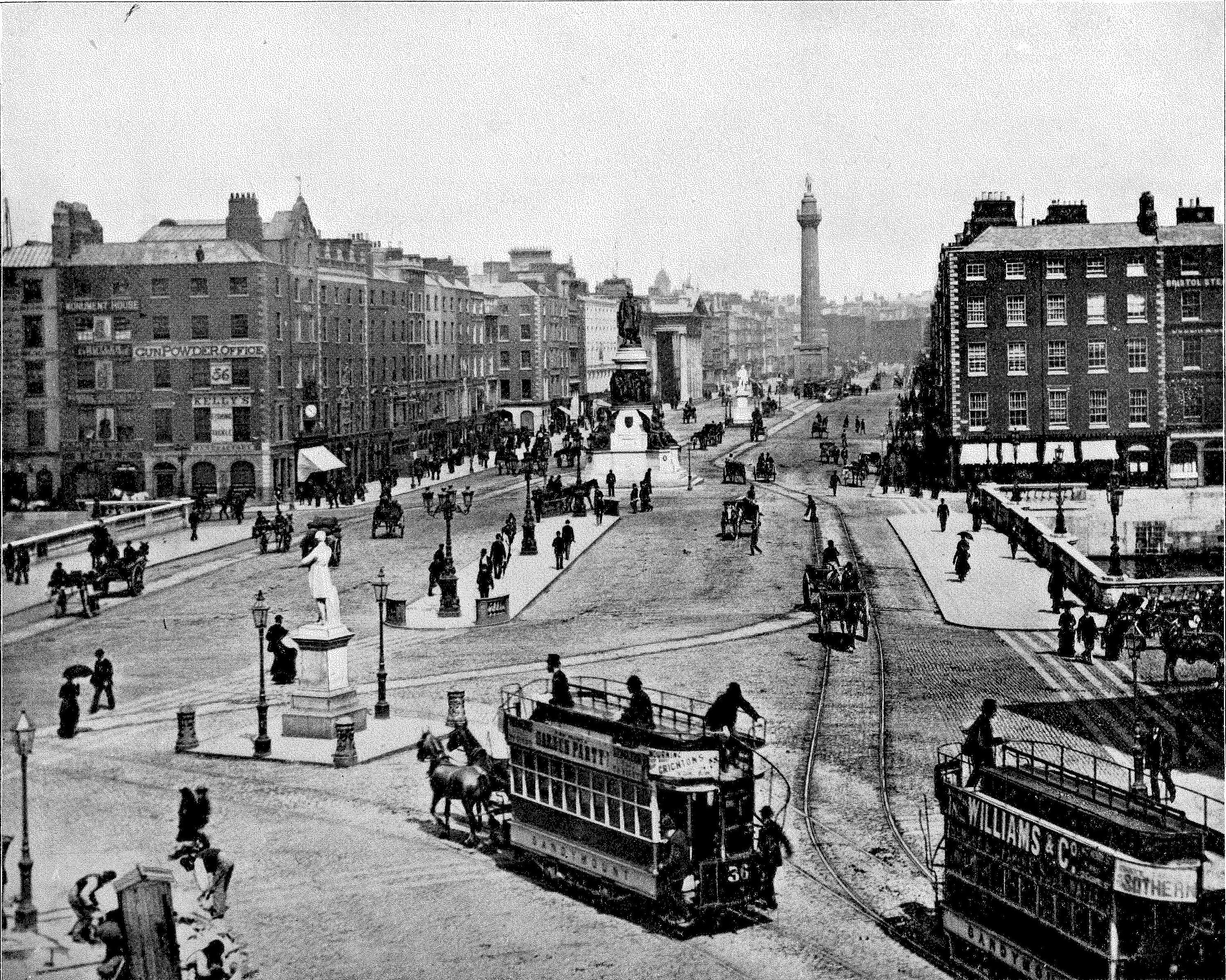 O'Connell Bridge and O'Connell Street, Dublin, Ireland, by John L. Stoddard (d. 1931) showing Nelson's Pillar and, facing it, the General Post Office.